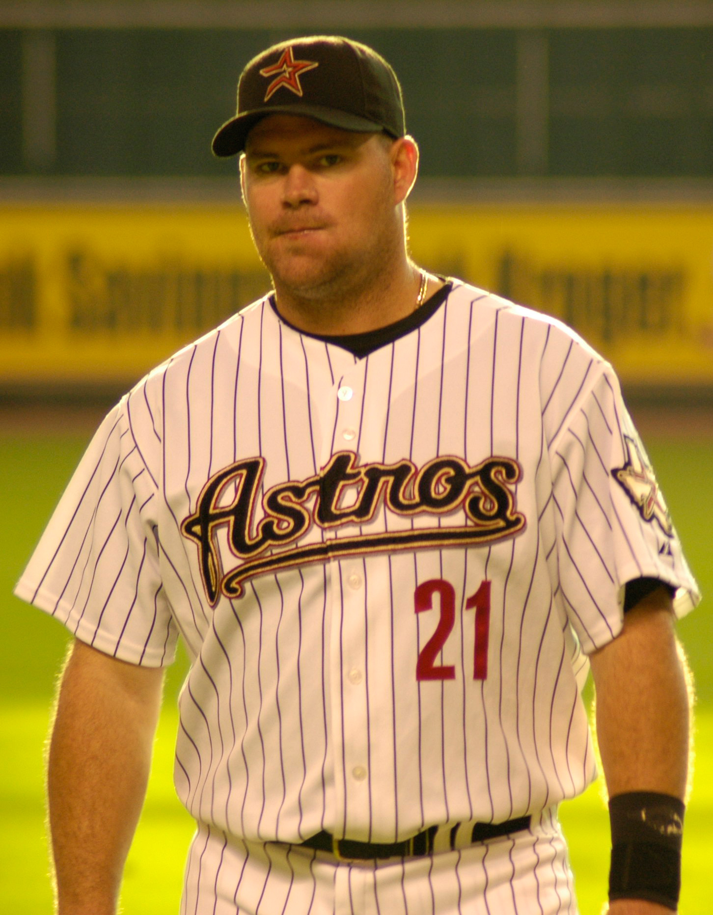 Description Photo of Ty Wigginton during warm up. DateMay 22, 2008SourceOwn workAuthorGrmn46 (talk) 13:48, 23 May 2008 . . Grmn46 . . 1,452×1,864 (536 KB) Photo of Ty Wigginton during warm up.